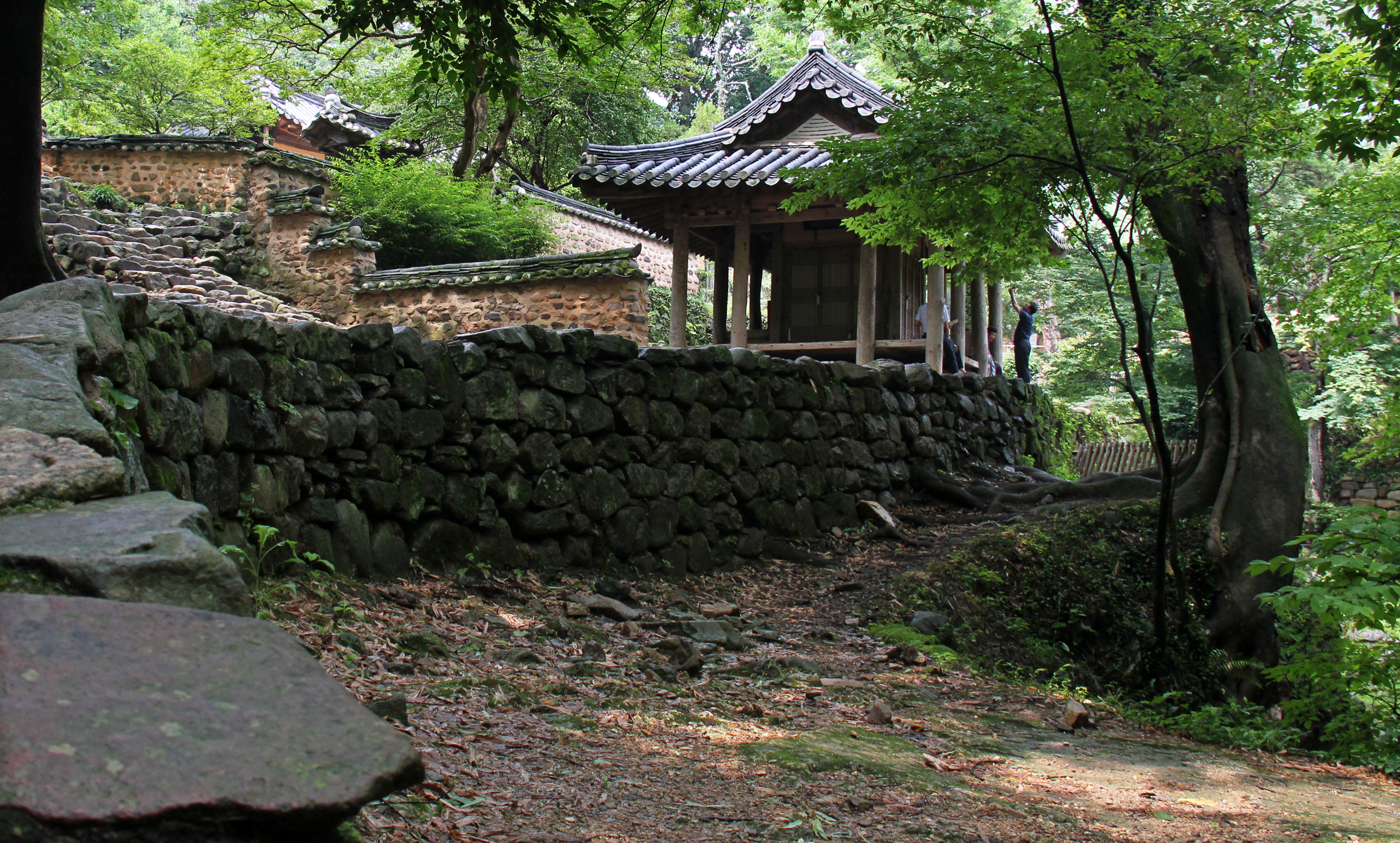 Soswaewon Garden (Traditional Korean Garden) Damyang-gun, Korea Ministry of Culture, Sports, and Tourism Korea Culture and Information Service (KOCIS Photo / Han Jeon) 담양 소쇄원 2012.07.14. 문화체육관광부 해외문화홍보원